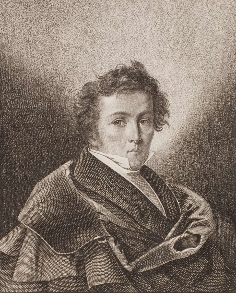 Depicted person: Wilhelm Müller